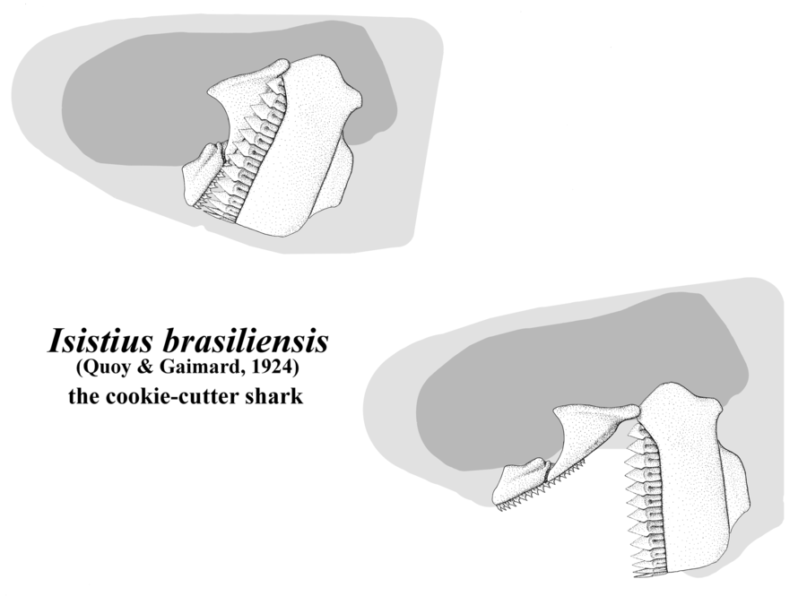 Skull of the cookiecutter shark.